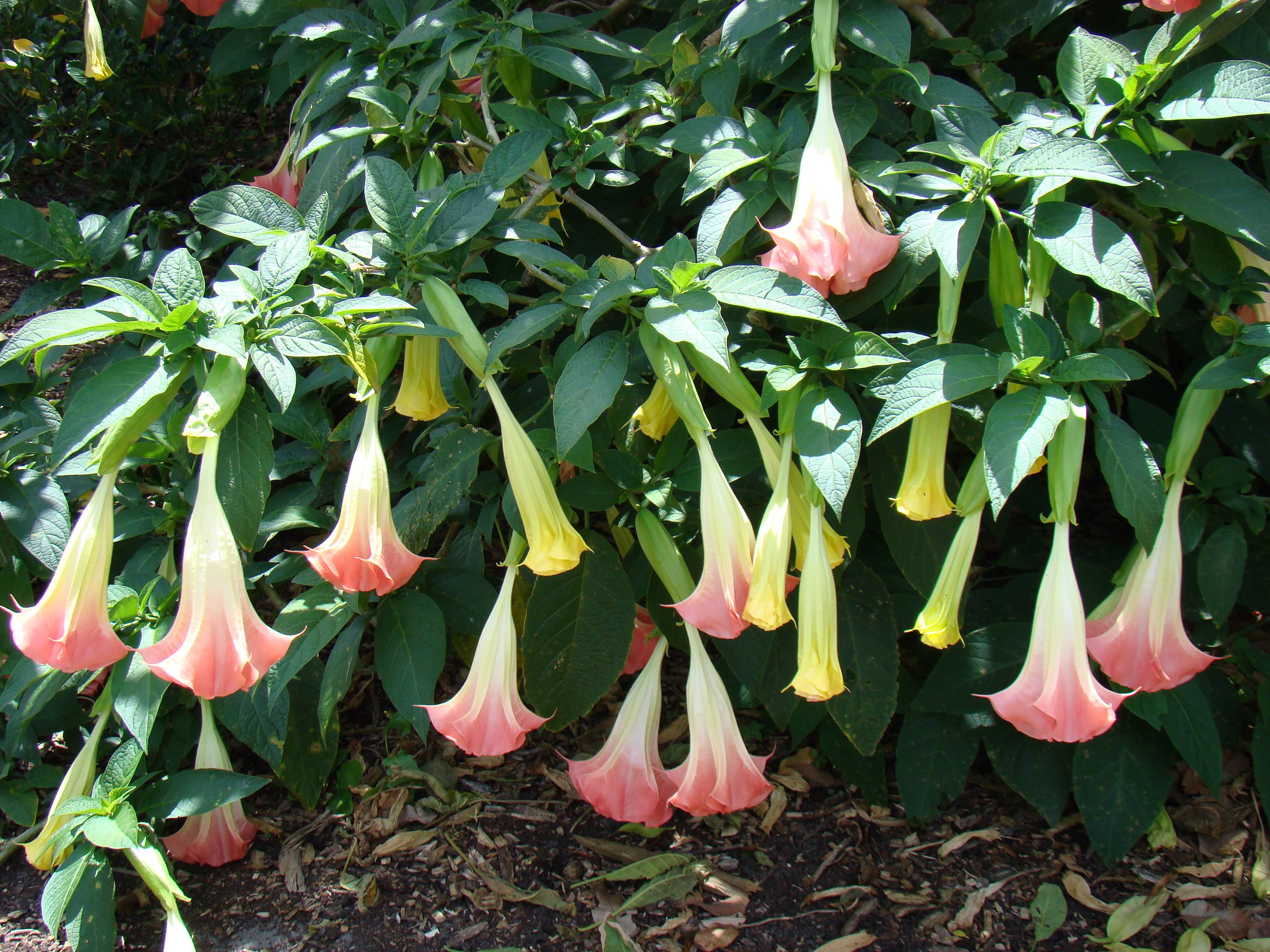 Angel's Trumpets (Brugmansia suaveolens / Solanaceae) in bloom in Mounts Botanical Garden, West Palm Beach, Florida.